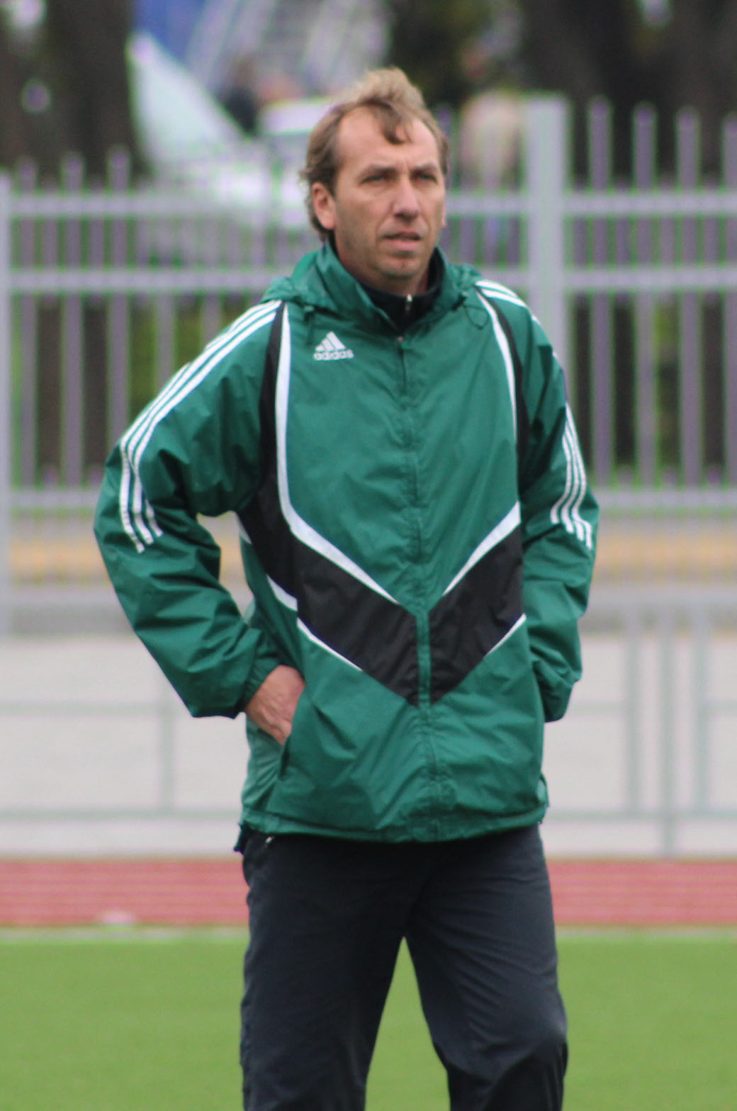 Vitalii Kotov